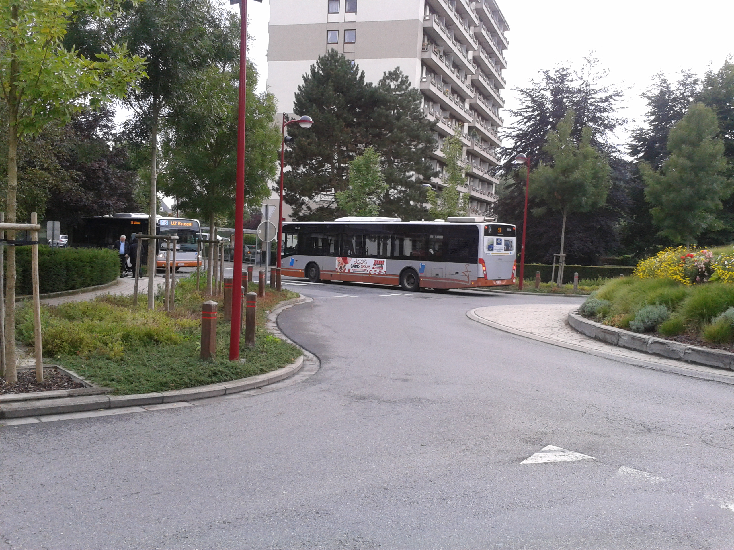 busses in jette gardens district